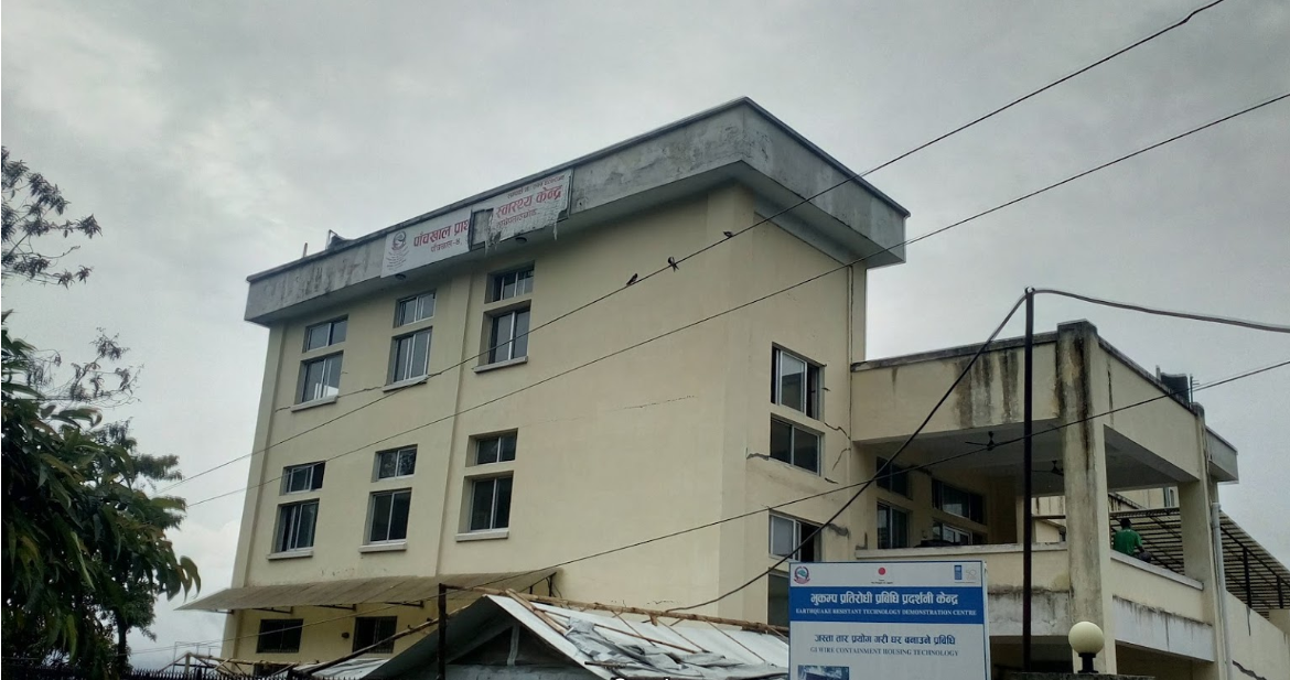 Primary health post in Panchkhal which has recently been upgraded to attest the need of Municipal Need